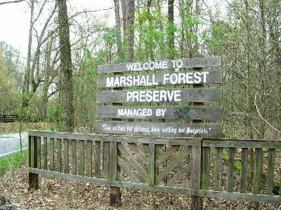 Marshall Forest — in Floyd County, Georgia. One of the few remaining old-growth forests in Northwest Georgia. A Nature Conservancy preserve.